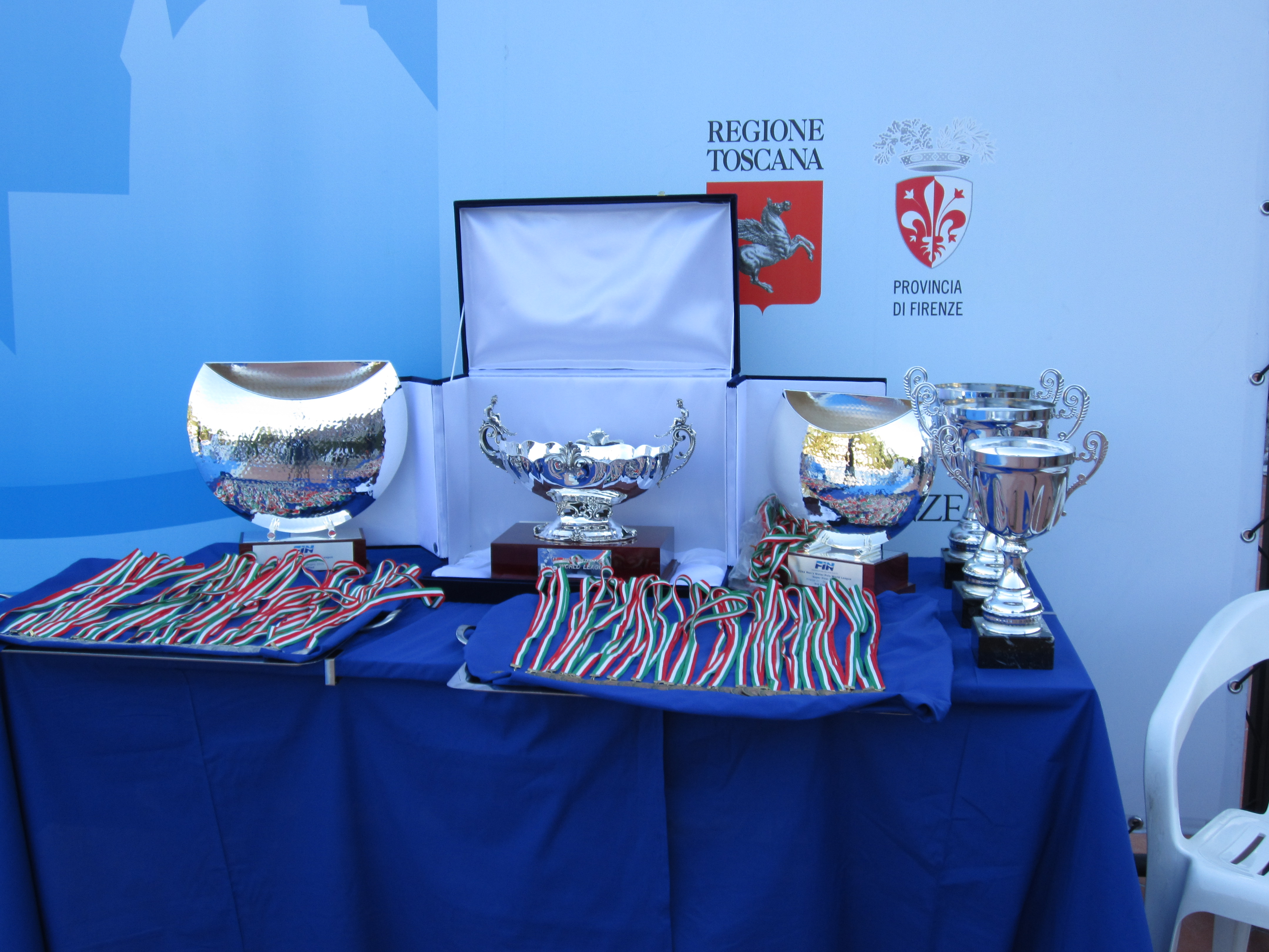 Fina Men's Water Polo World League Super Final 21 - 26 June 2011